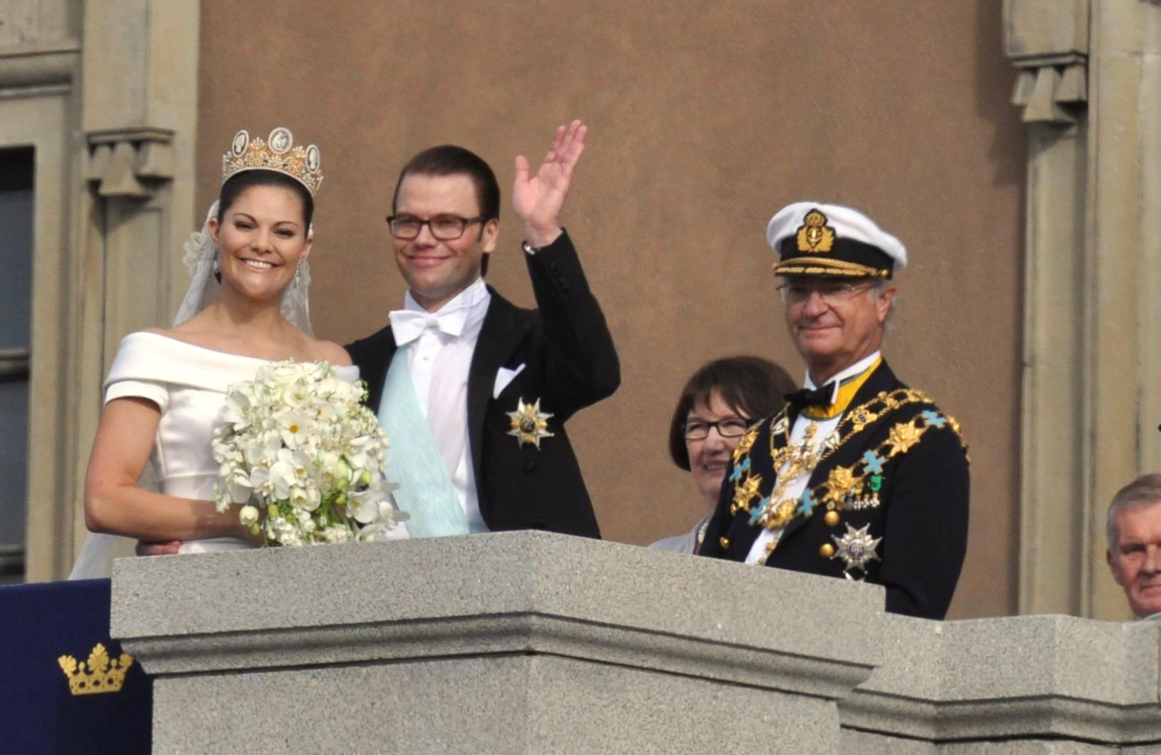 Wedding of Victoria, Crown Princess of Sweden, and Daniel Westling; The Couple at Lejonbacken together with Carl XVI Gustaf of Sweden